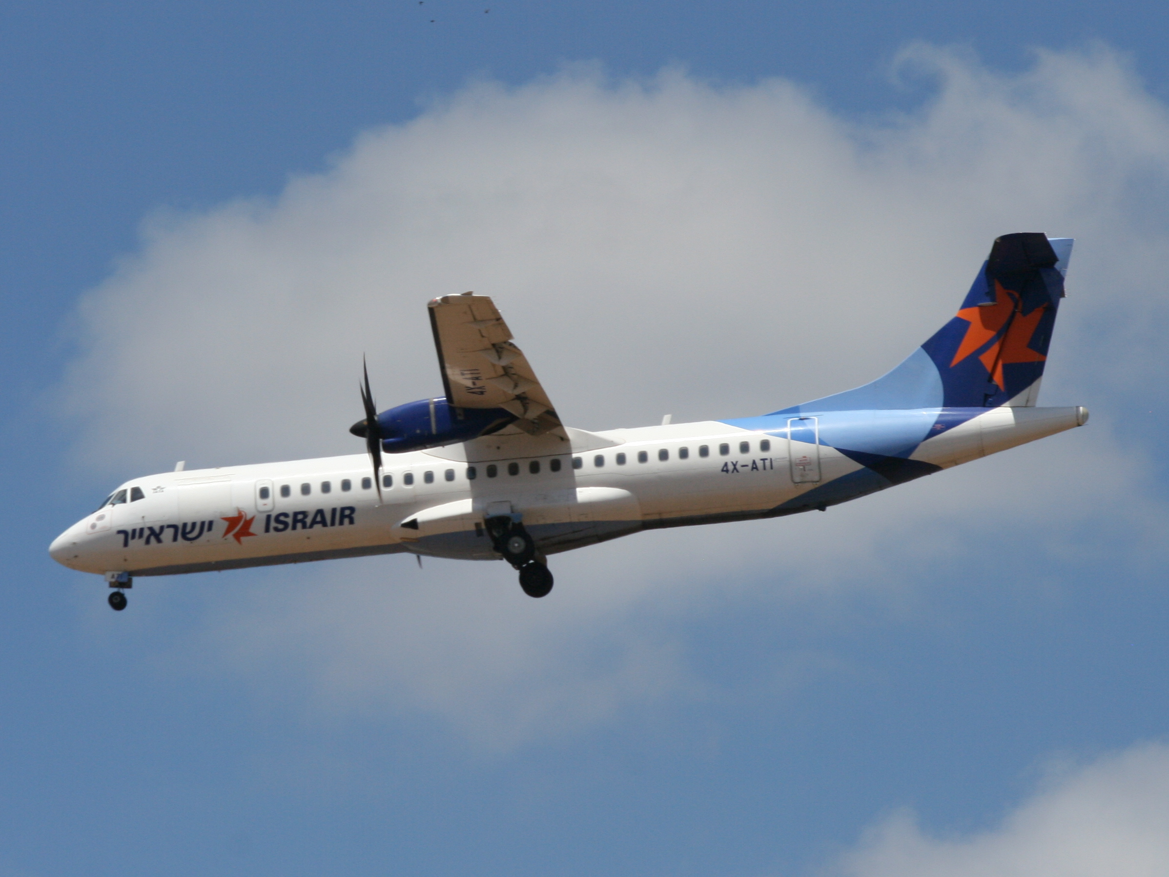 Landing at Ben Gurion International airport.